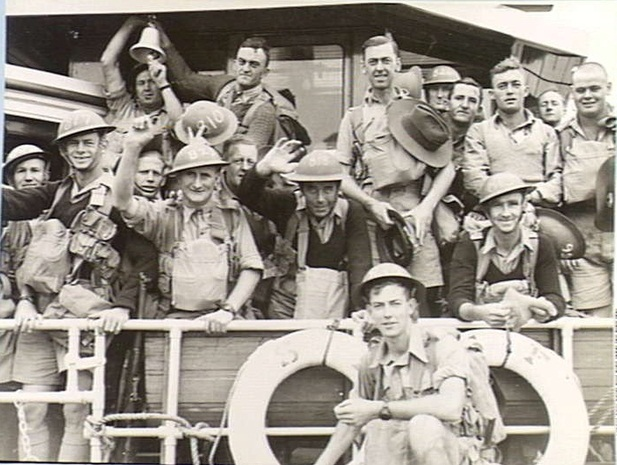 Reinforcements from the Australian 2/20th Infantry Battalion on a ferry in Sydney prior to sailing for Malaya, February 1941